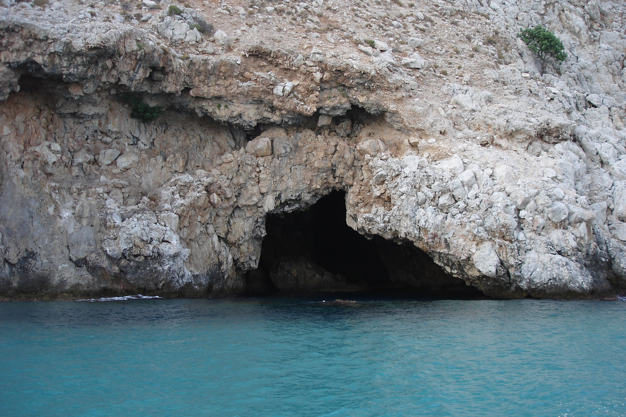 Pirate cave in Alanya.